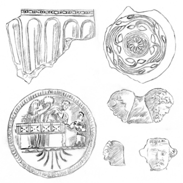 Indo-Greek artifacts from Taxila. Personal drawing, from John Marshall, "Taxila archaeological excavations". From top, left: - Fluted vase with bead and reel design (Bhir Mound, stratum 1) - Cup with rosace and decoratice scroll (Bhir Mound, stratum 1) - Stone palette with individual on a couch being crowned by standing woman, and served (Sirkap, stratum 5) - Handle with double depiction of a philosopher (Sirkap, stratum 5/4) - Woman with smile (Sirkap, stratum 5) - Man with moustache (Sirkap, stratum 5)